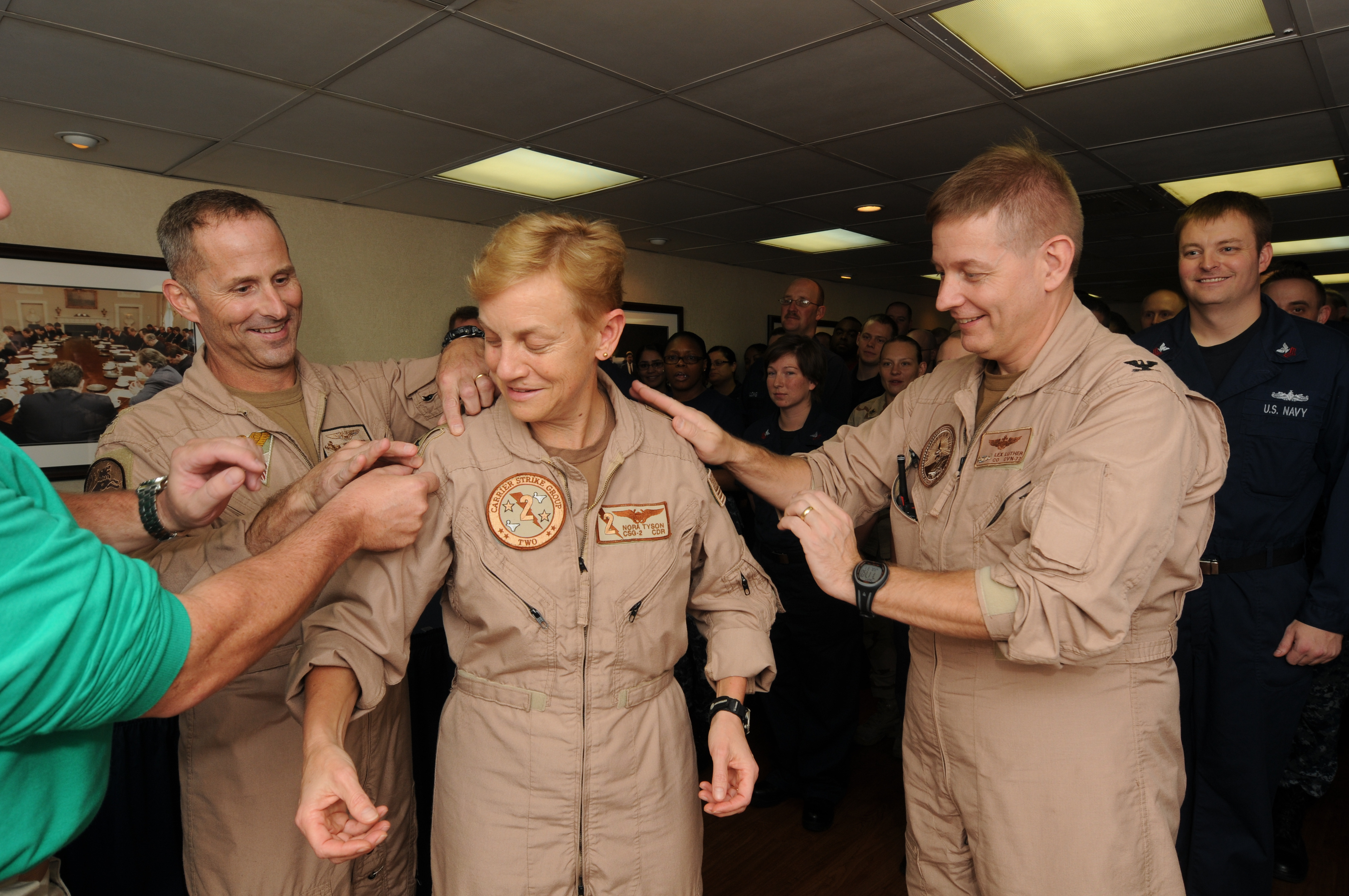 ARABIAN SEA (July 31, 2011) Rear Adm. Nora W. Tyson, commander of the George H.W. Bush Carrier Strike Group, is pinned to rear admiral upper half by Capt. Jeffery A. Davis, commander of Carrier Air Wing (CVW) 8, left, and Capt. Brian E. Luther, commanding officer of the aircraft carrier USS George H.W. Bush (CVN 77). George H.W. Bush is deployed to the U.S. 5th Fleet area of responsibility on its first operational deployment conducting maritime security operations and support missions as part of Operations Enduring Freedom and New Dawn. (U.S. Navy photo by Mass Communication Specialist Seaman Apprentice Brian Read Castillo/Released)